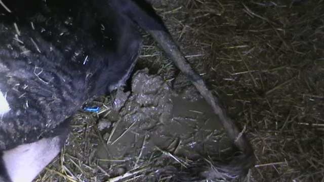 milk fever in a dairy cow : miction and defecation during calcium treatment